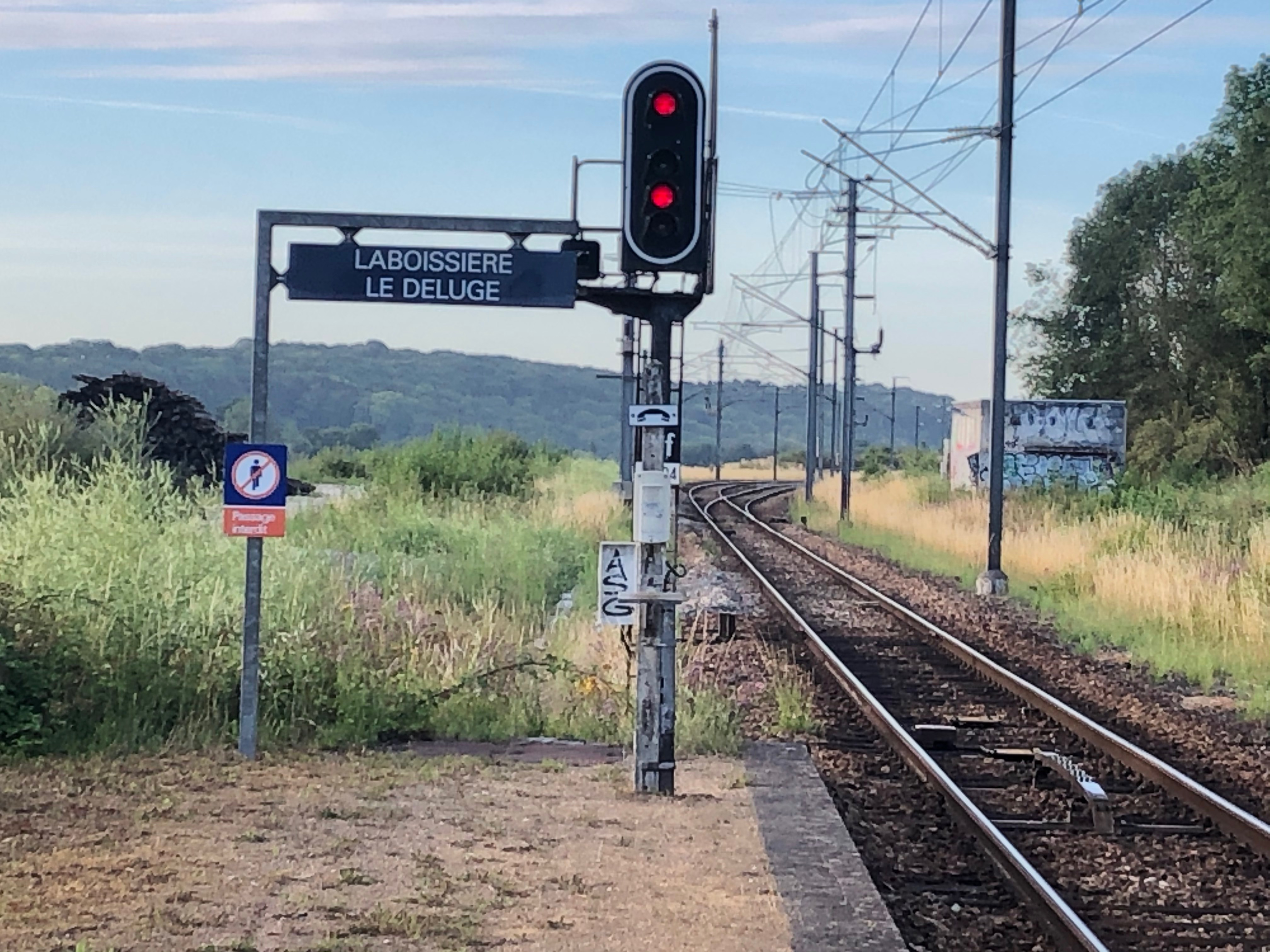 South of the Laboissière le Déluge railway station (near Paris), with the signal of the exit and the beginning of the double track